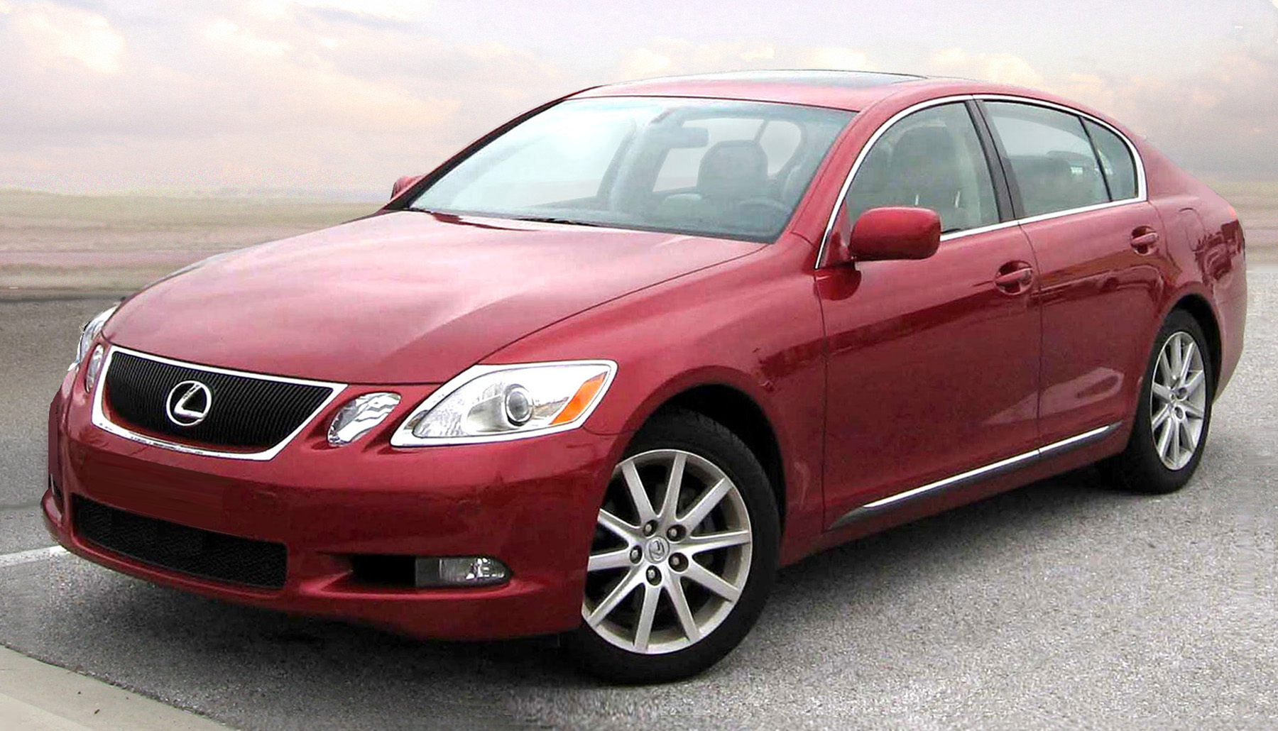 2006 Lexus GS350 photographed in USA; this is a modified version of the original; cropped and contrast adjusted, and rotated more towards horizontal.